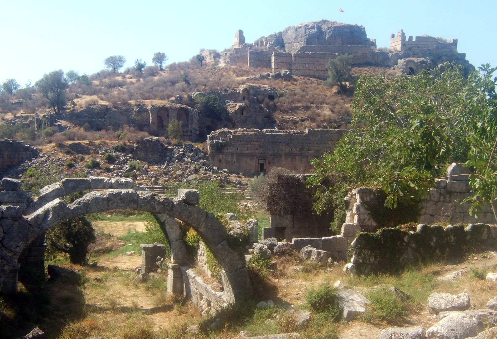 Ruins of the antique city of Tlos, Turkey